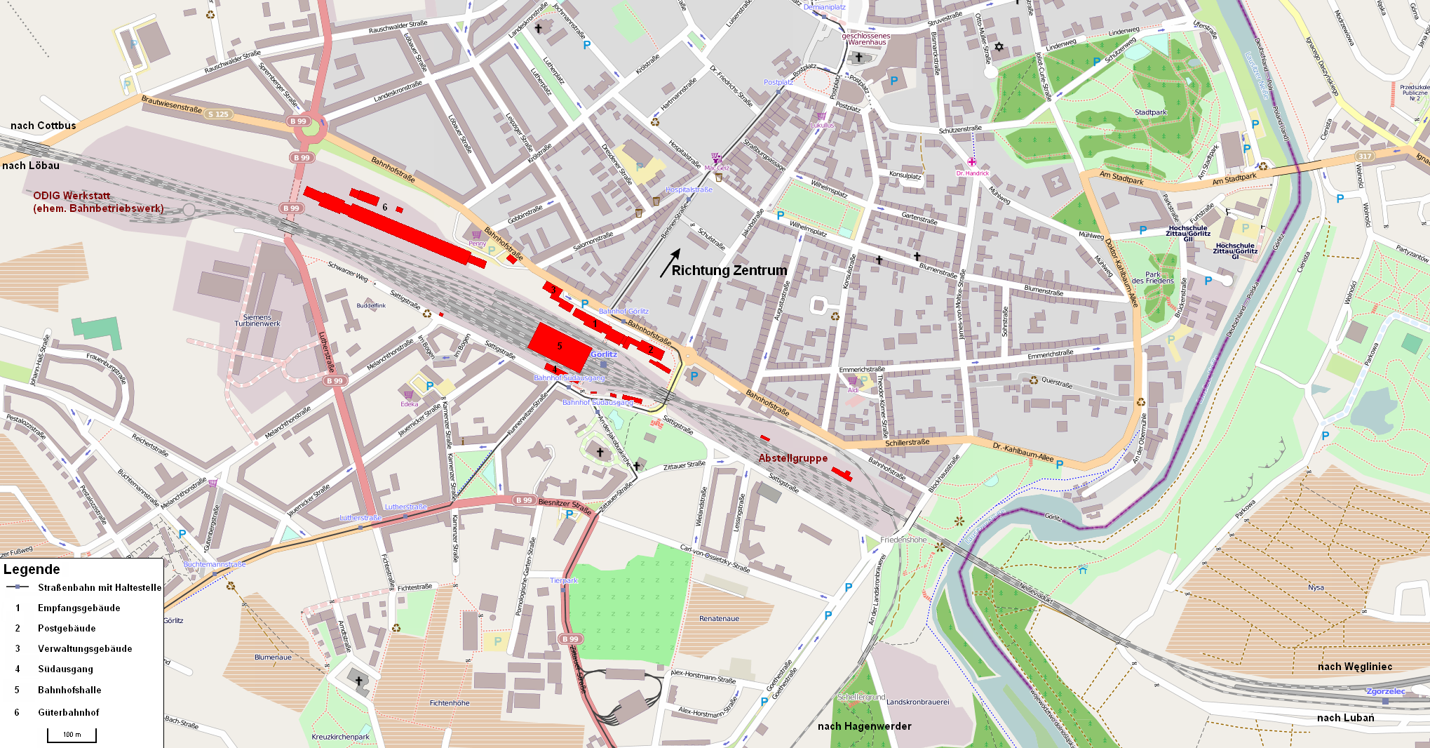 This map may be incomplete, and may contain errors. Don't rely solely on it for navigation.